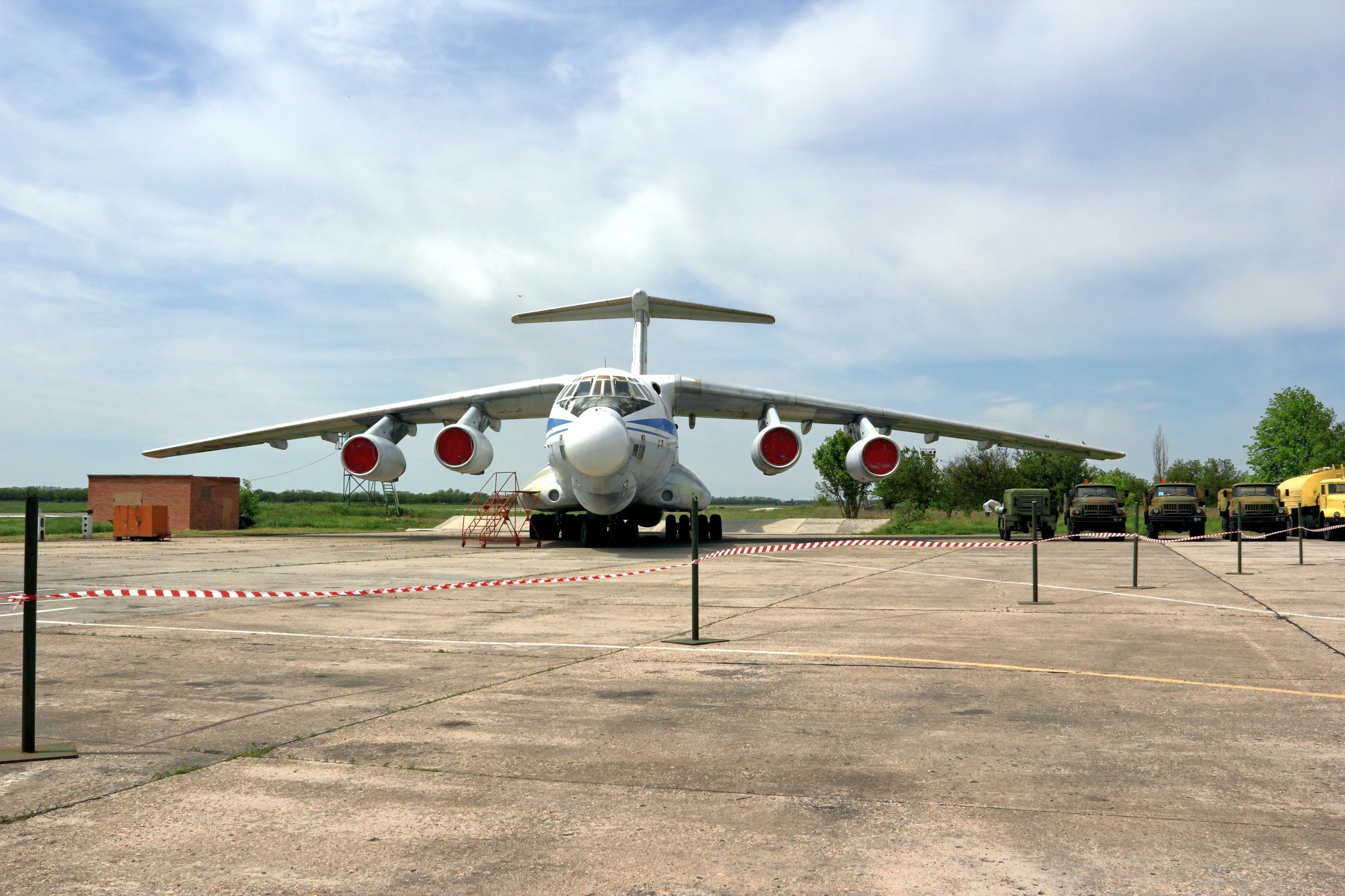 Taganrog. Beriev Aircraft Company. Beriev A-60